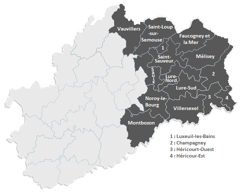 Second Constituency of Haute-Saône